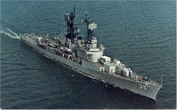 The U.S. Navy guided missile destroyer USS Mitscher (DDG-35) in the 1970s.